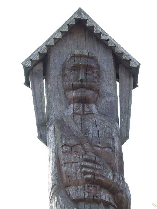 Monument in Linoniai, birthplace of Lithuanian lieutenant general Mykolas Velykis (1884-1955).